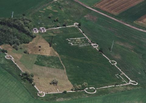 Tokod, Hungary, aerialphotgraphy This is a photo of a monument in Hungary, Identifier: 6487